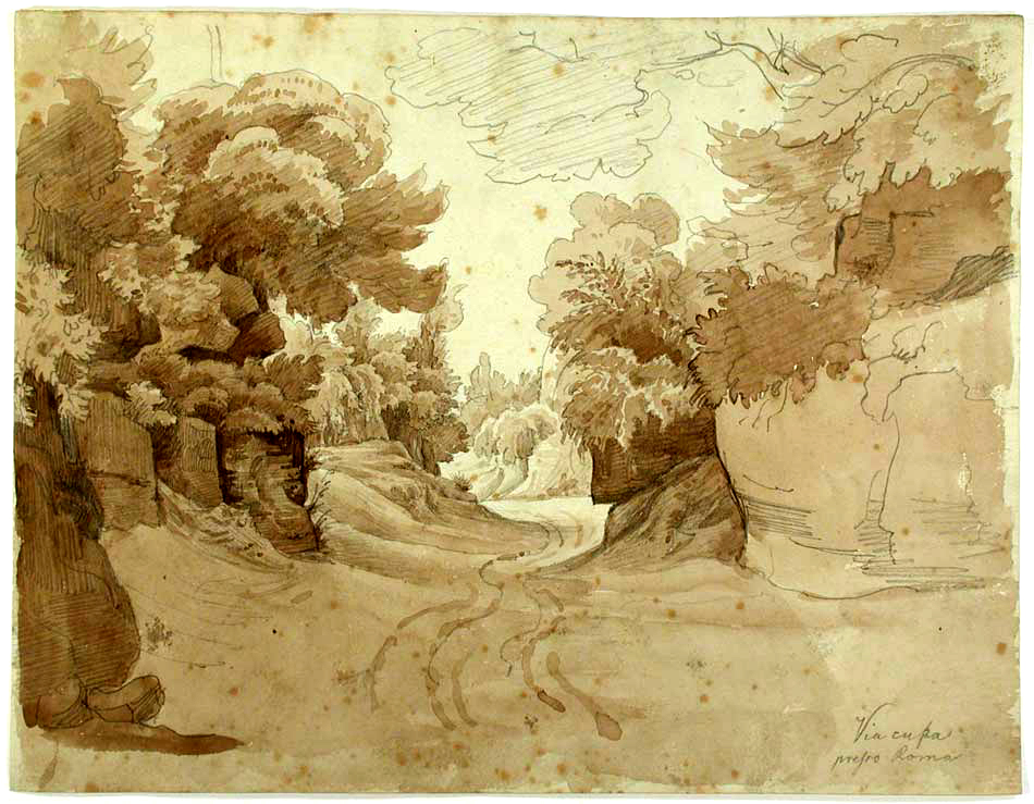 Brown pencil-and-ink-drawing by Rudolf Wiegmann about 1828 – 1832: „Via Cupa near Rome“.